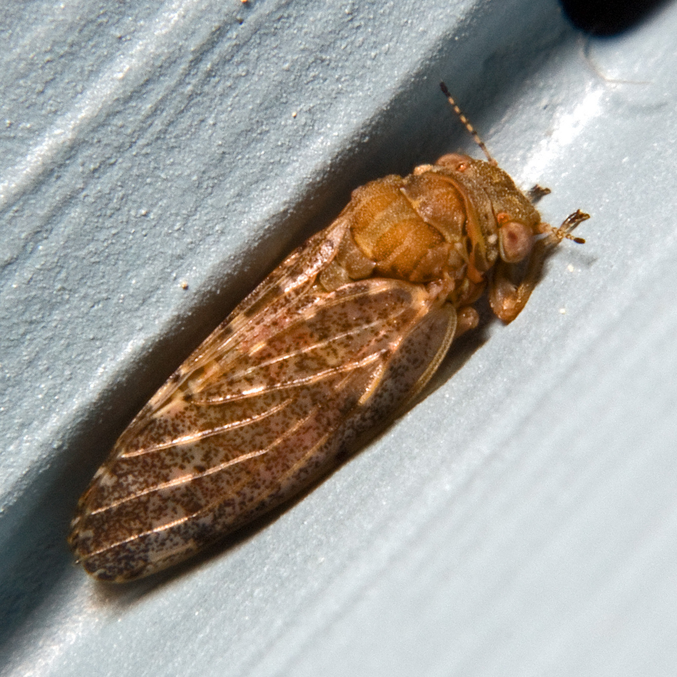 Hackberry Psyllid - Pachysylla sp. Family Psyllidae (Jumping Plant Lice) Size: 3mm